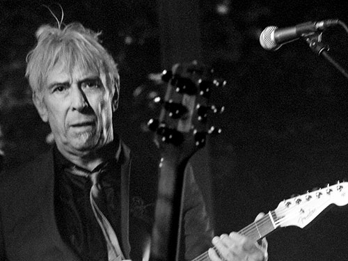 John Cale at Aarhus Festival 2013 playing music from the album "Music for A New Society" (1982)